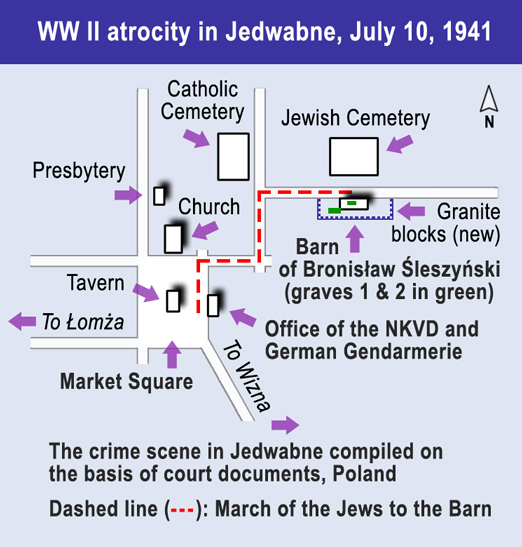 Map of the Jedwabne pogrom, 10 July 1941. The crime scene compiled on the basis of court documents, Poland. March of the Jews to the barn of Bronisław Śleszyński.